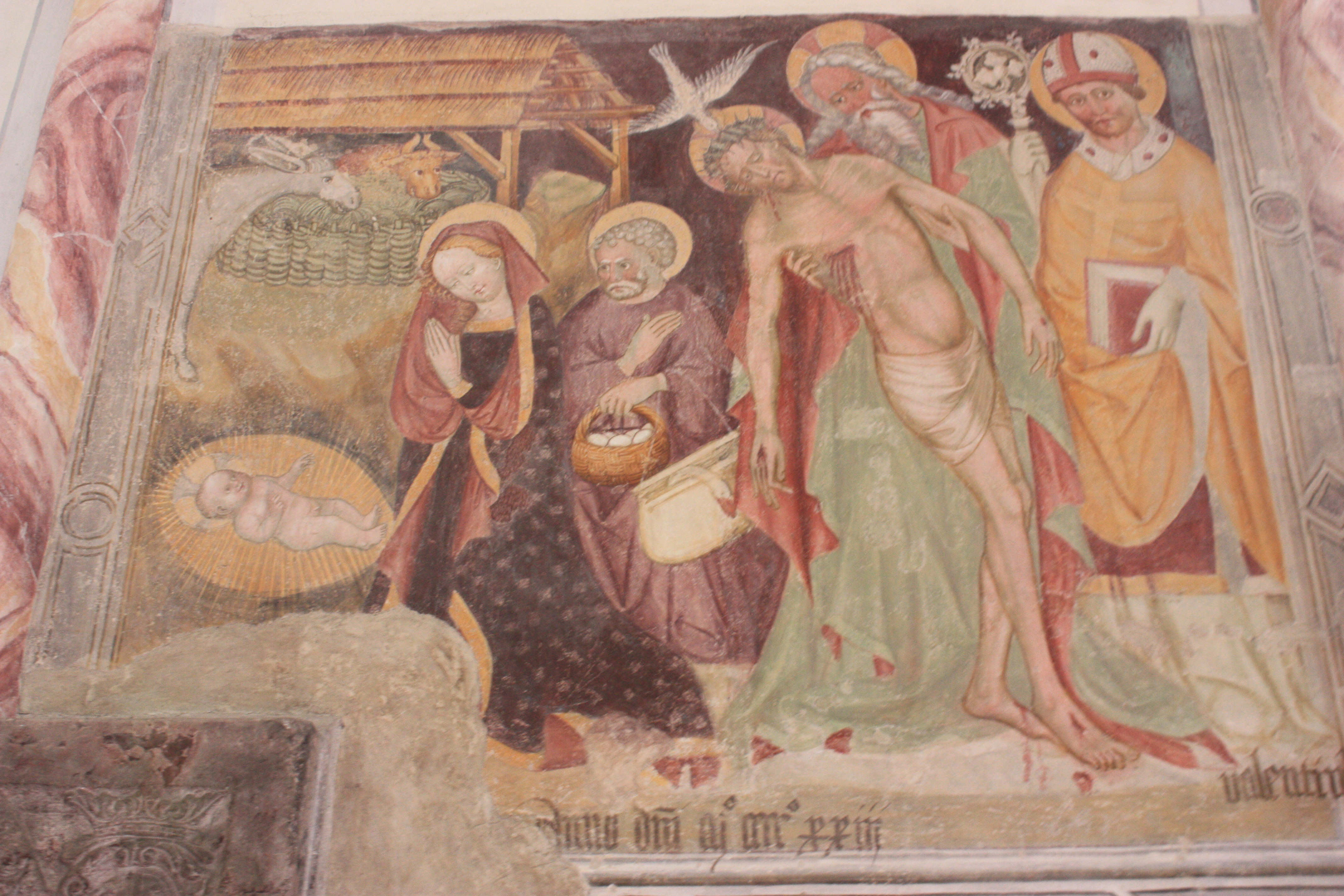 Parish church in Tainach: Fresco Locality: Tainach Community: Völkermarkt